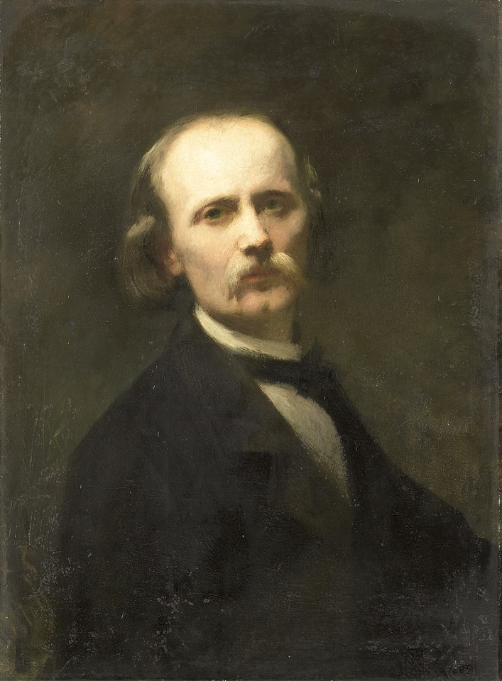 Self portrait oil on canvas 78 cm x 58 cm